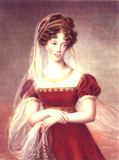 Portrait of Marie-Caroline de Bourbon-Sicile, duchesse de Berry